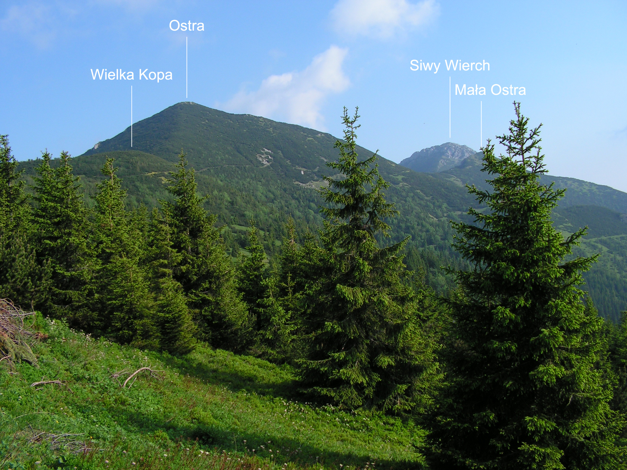 View from below Predúvratie saddle (Polish captions).